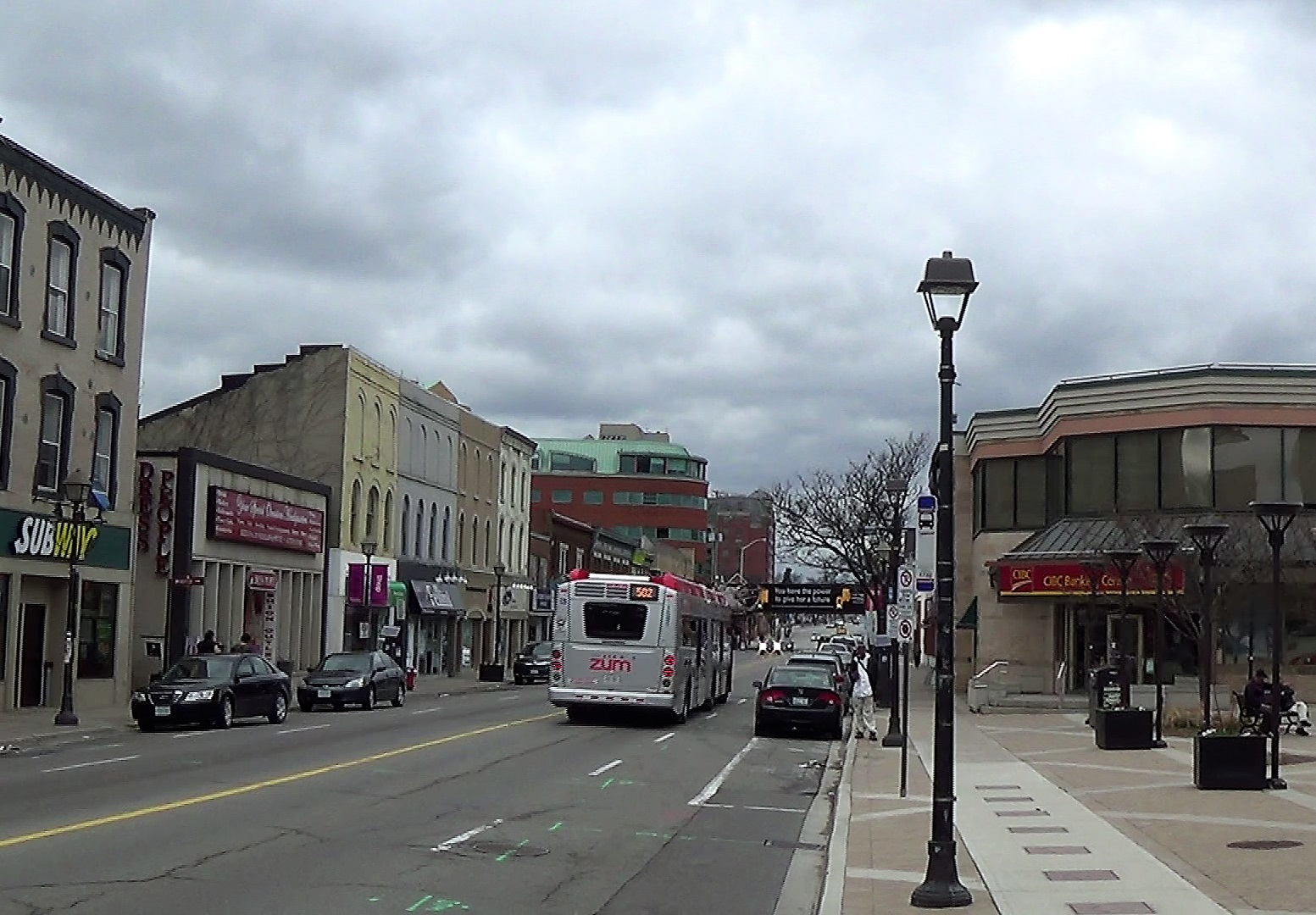 Looking north up Main (Hurontario) Street in Brampton, Ontario, Canada